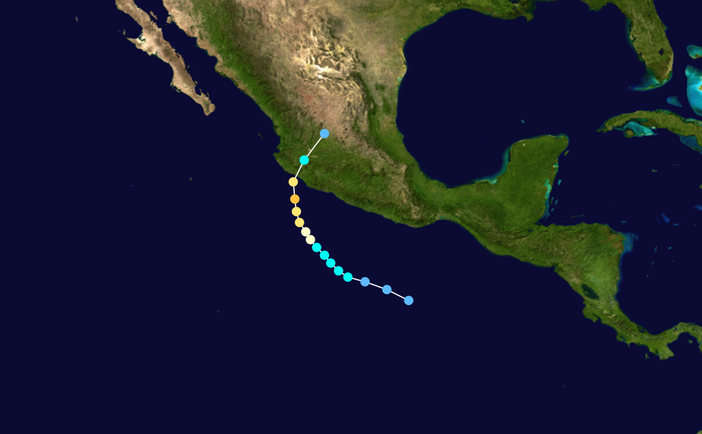 Hurricane Winifred (1992) track. Uses the color scheme from the Saffir-Simpson Hurricane Scale.